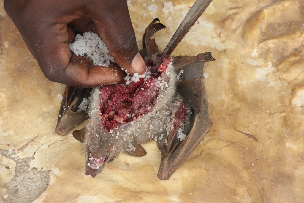 The Akodessawa Fetish Market in Lomé, Togo, West Africa is one of the biggest markets for voodoo paraphernalia.